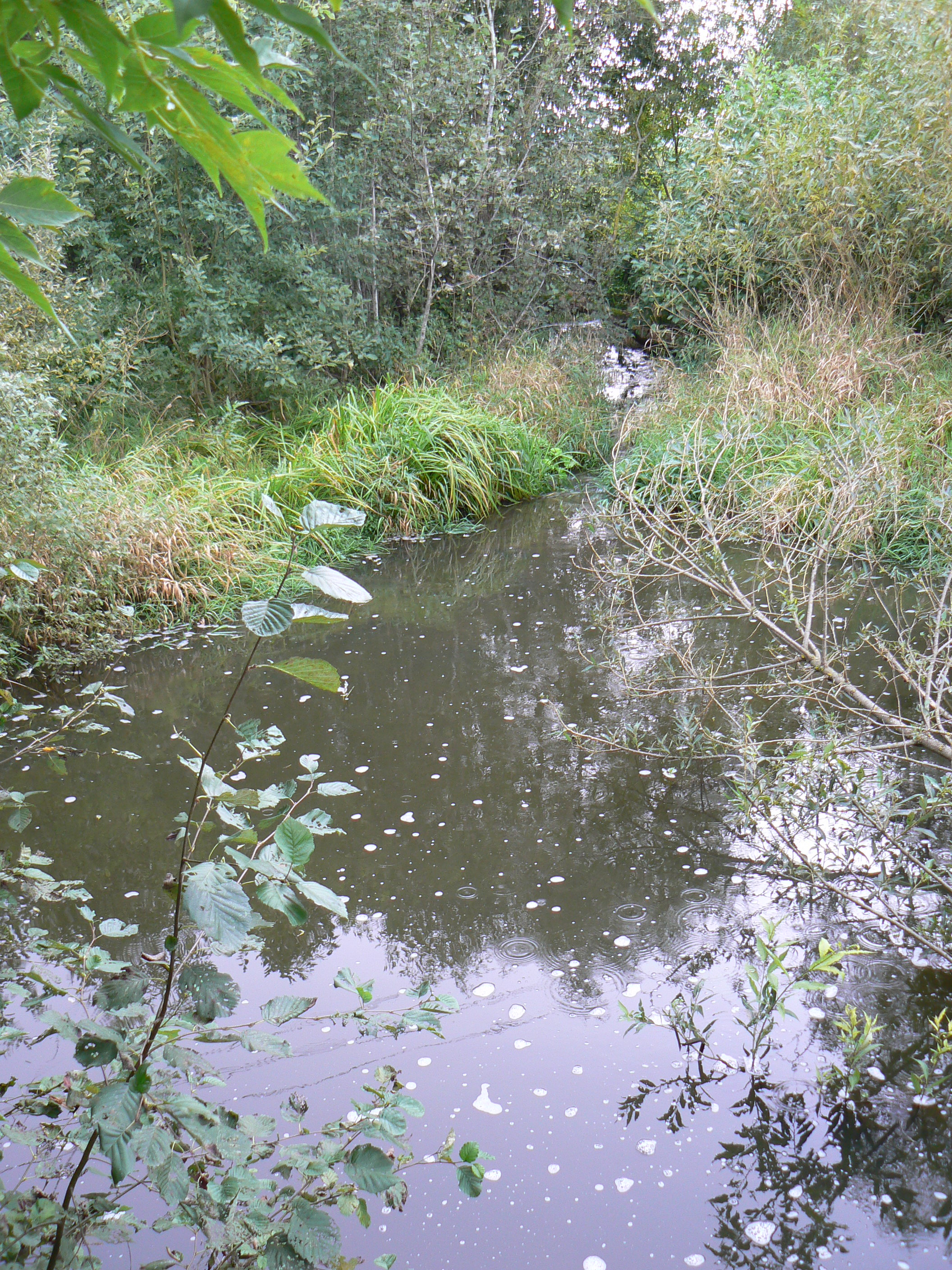 Malūndaubė in village Karapolis